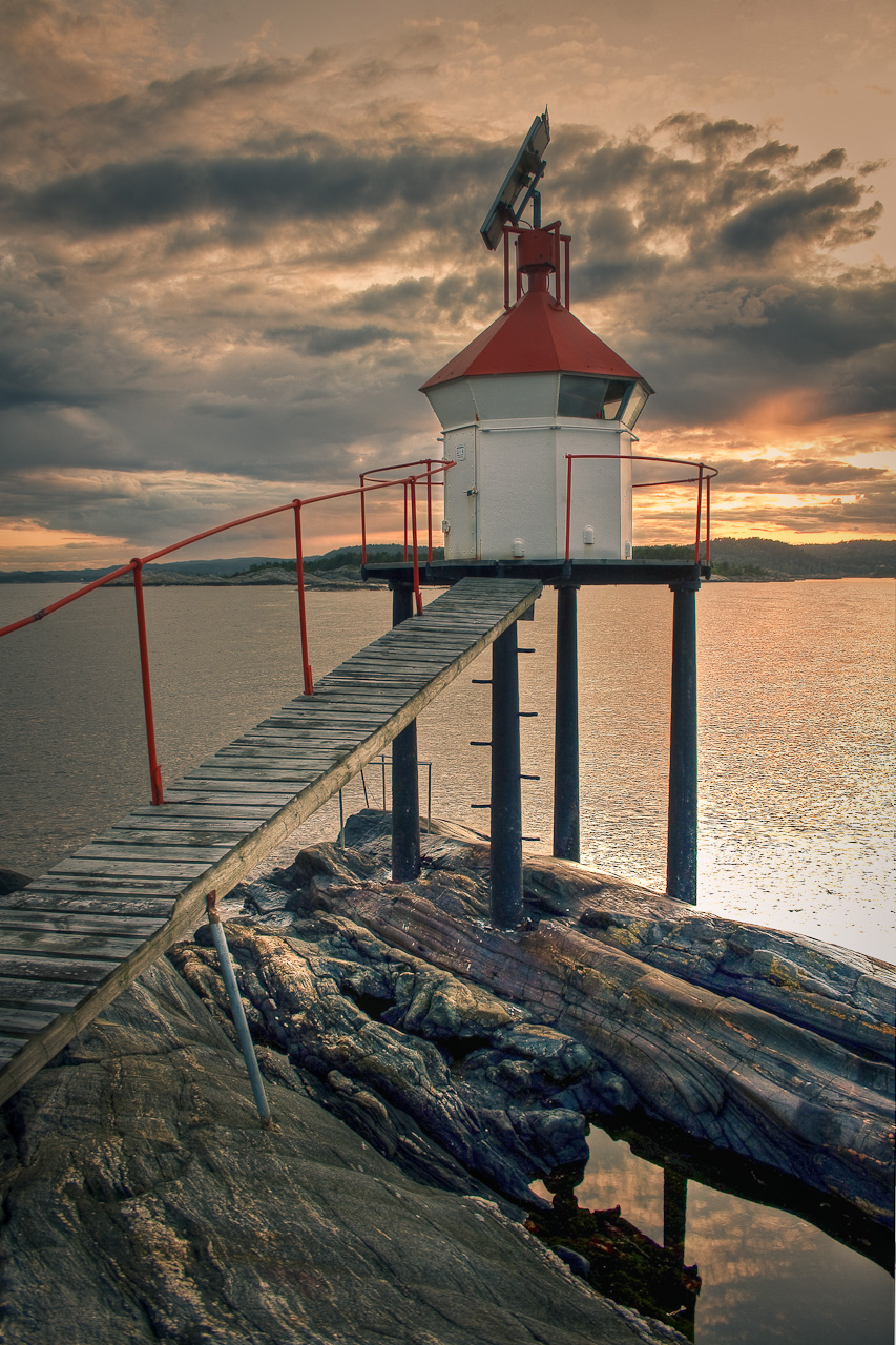 Mejulen Lantern in Telemark, Norway